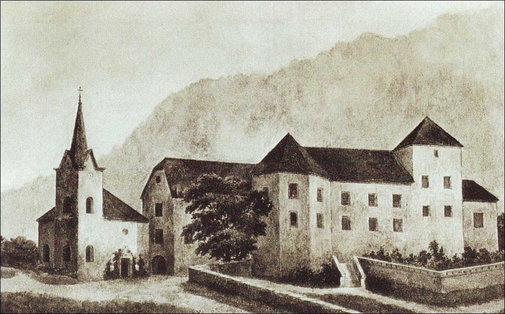 Medija Castle